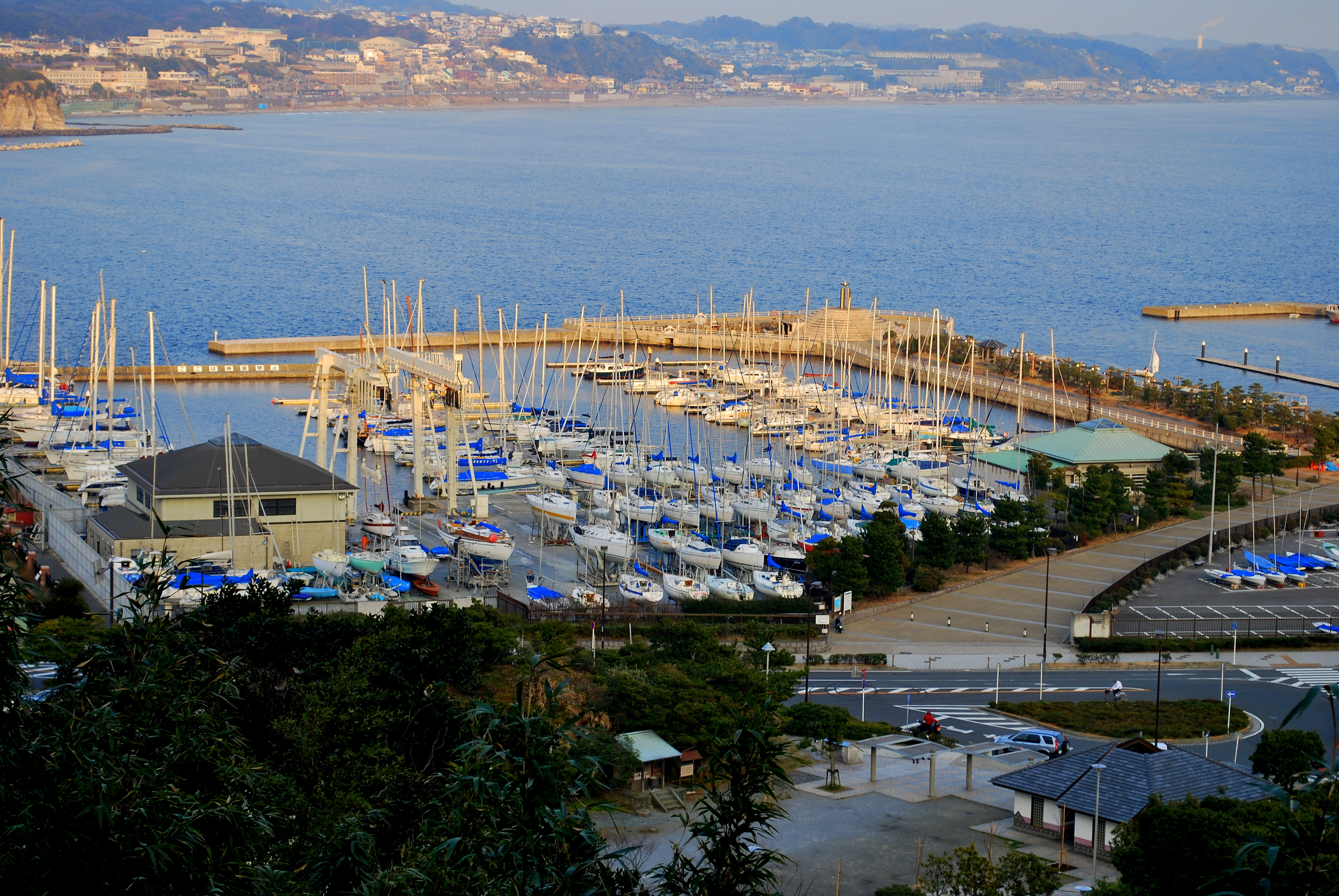 Enoshima bay near tpkyo Japan